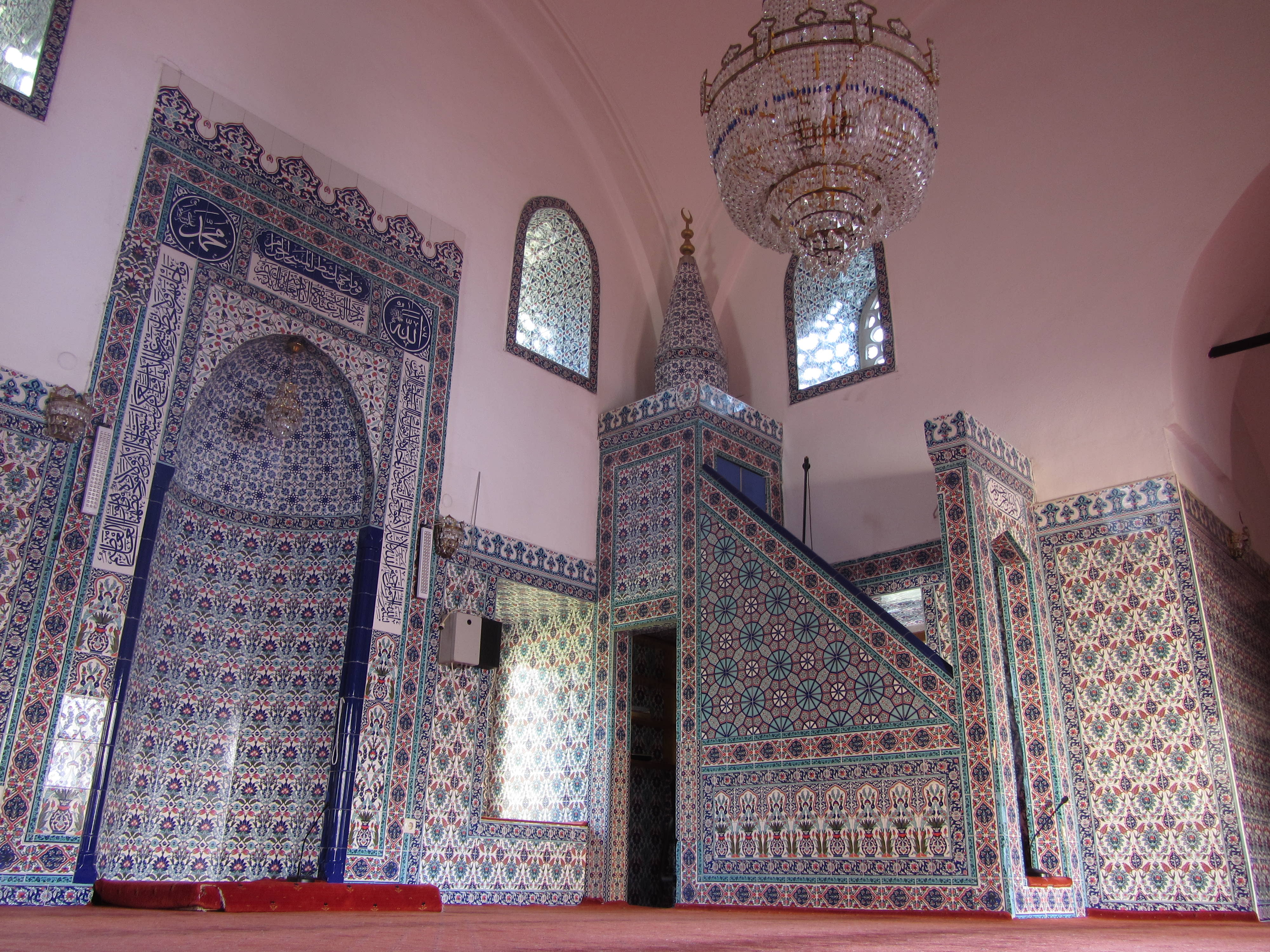 Kapı-Ağası-Madrasah in Amasya